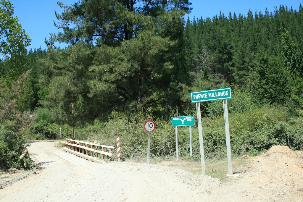 Puente Millahue, un punto rural ubicado en el camino que conecta a Hualqui con Yumbel. Cerca de la zona de Quinquihueno.